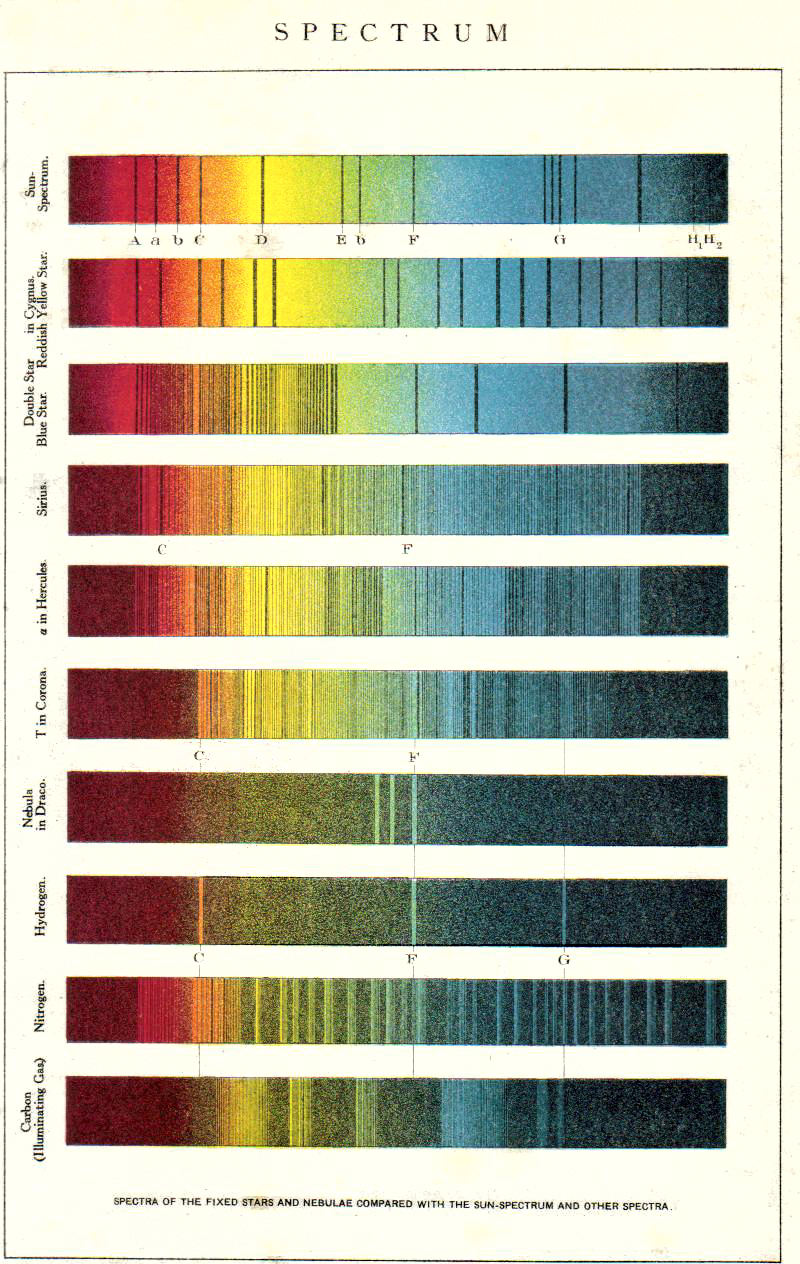 Spectra of the fixed stars and nebulae compared with the sun-spectrum and other spectra.